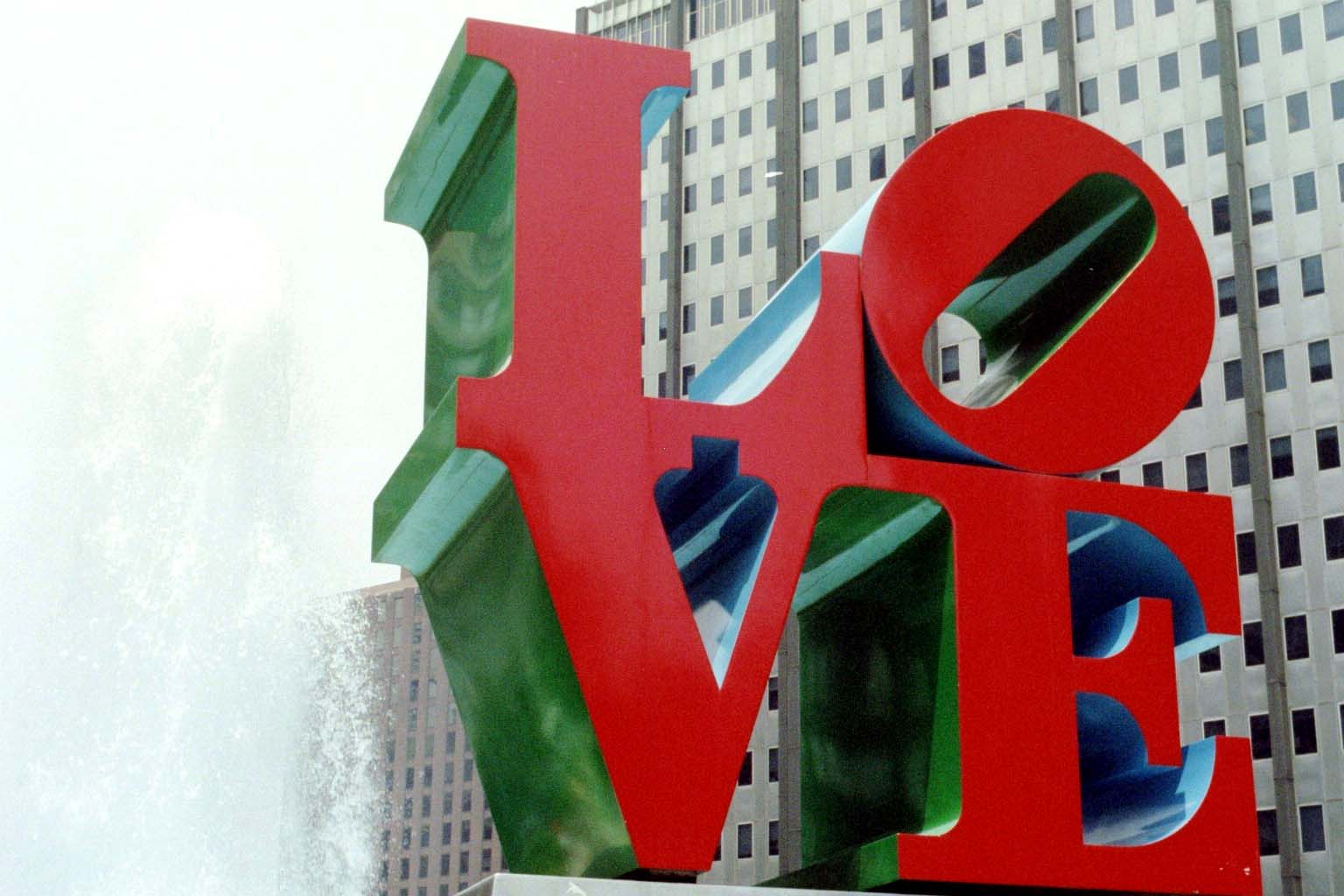 Home of Robert Indiana's famed "LOVE" sculpture, this park is one of Philly's most romantic spots. (hmm I wonder why?) Summer. 2006